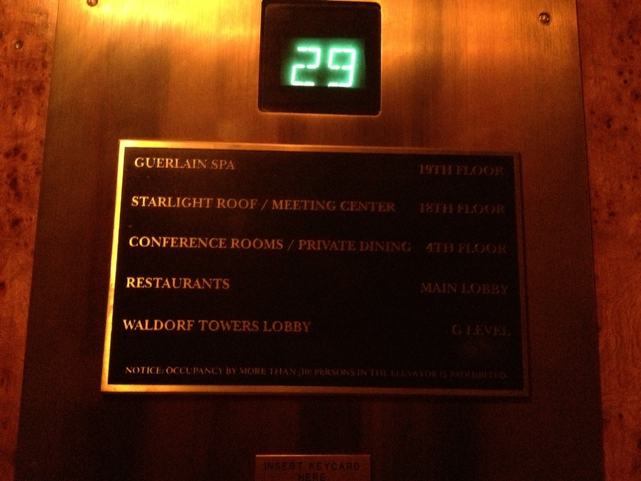 a typical Elevator Indicator located the Waldorf Astorria Hotel in New York City NY. This elevator was made by Otis